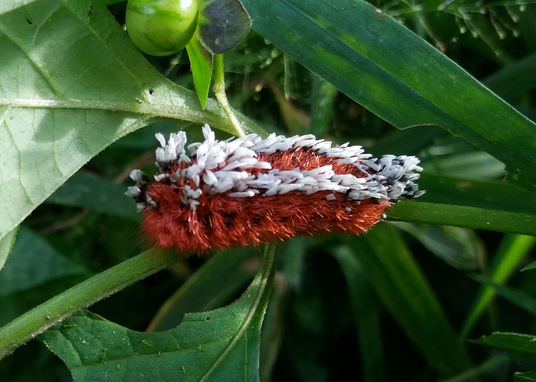 Shag-carpet caterpillar in Ecuador